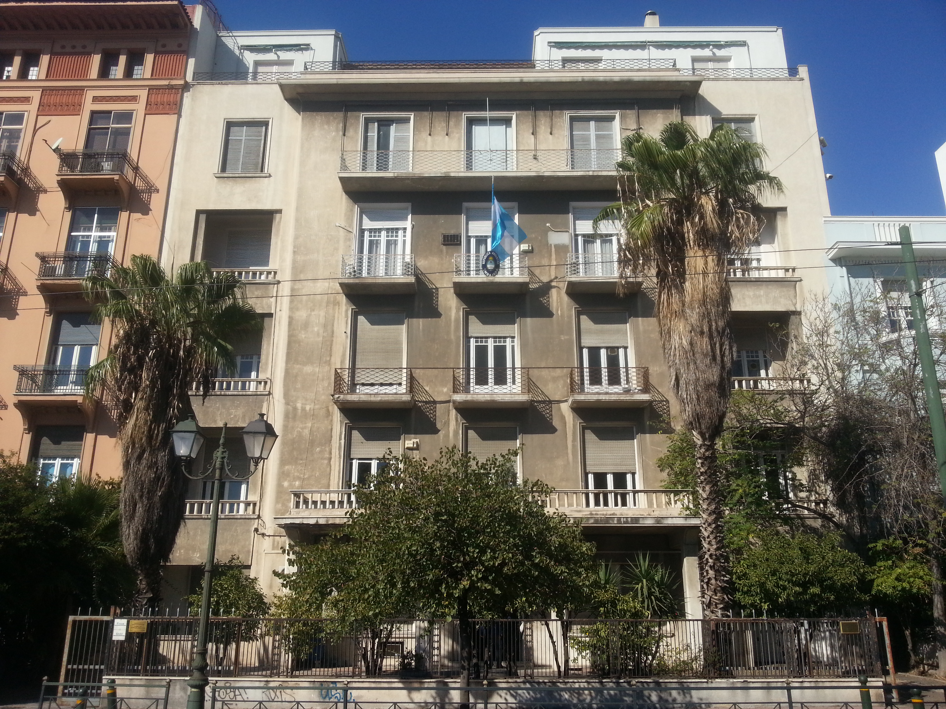 Embassy of Argentina in Athens, Greece